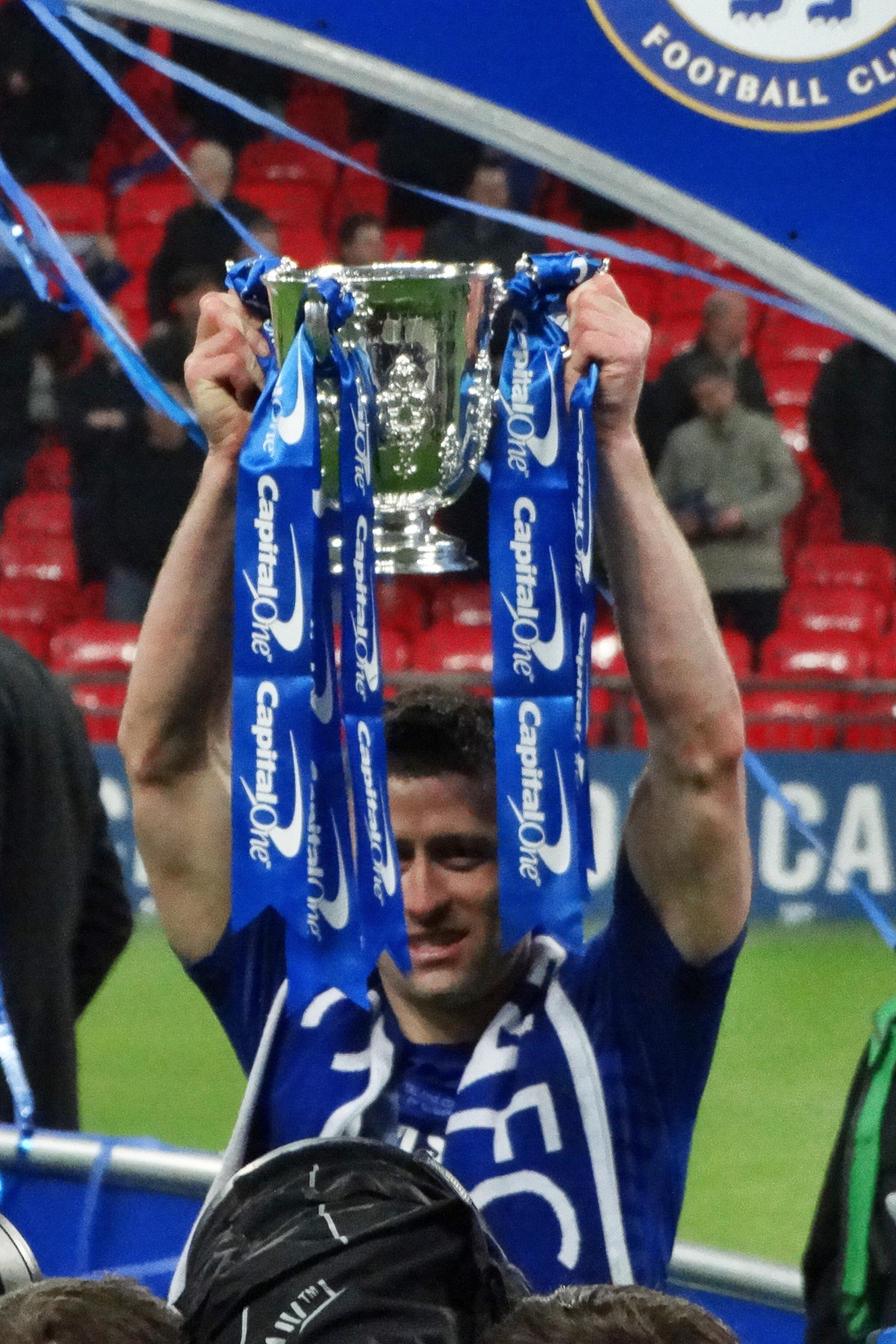 Chelsea 2 Spurs 0 Capital One Cup winners 2015